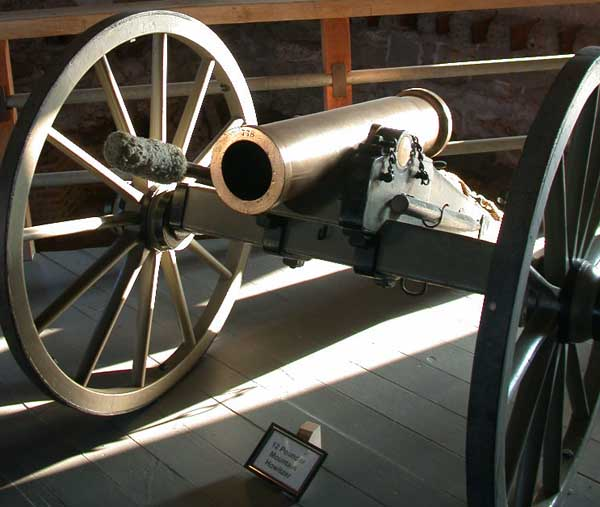 12 pounder mountain howitzer on display at the Fort Laramie National Historic Site in eastern Wyoming.